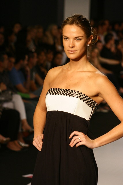 Leticia Birkheuer no Crystal Fashion 2007.